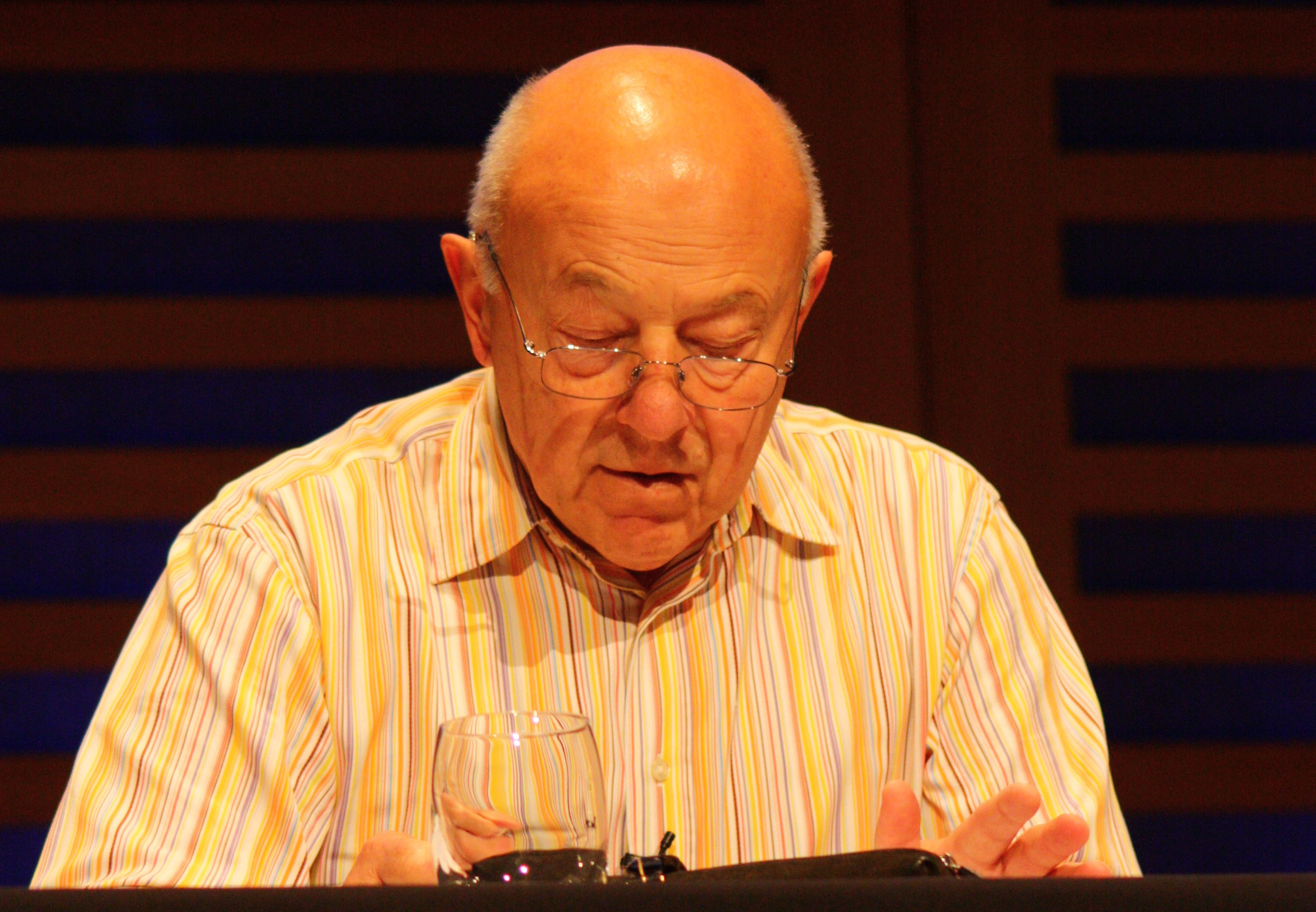 Sir John Tusa welcomes people to #clore10